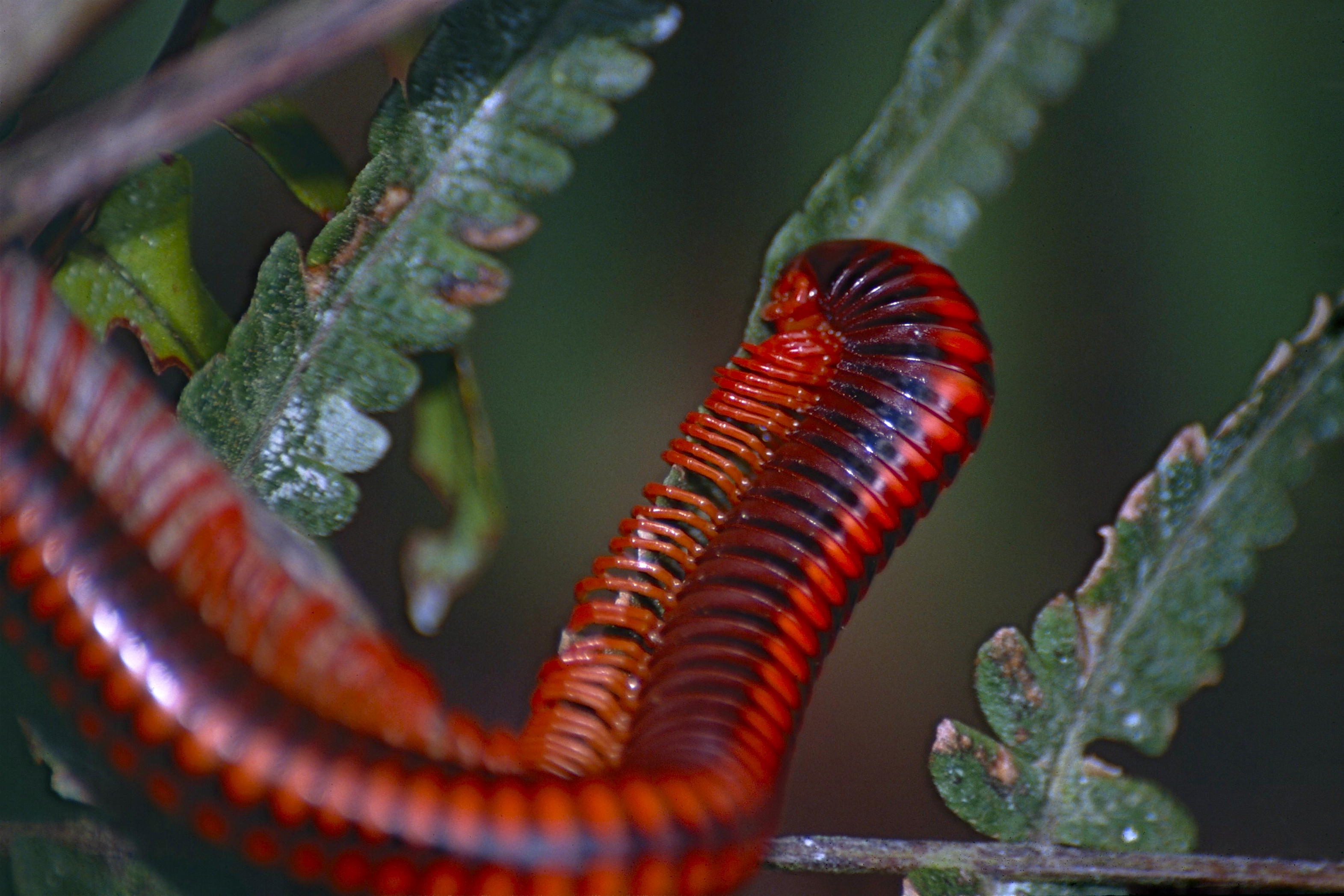 Anosy Mountains, North of Tolagnaro, MADAGASCAR Scanned Slide from 1998